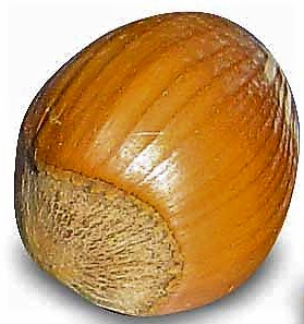 Single hazelnut